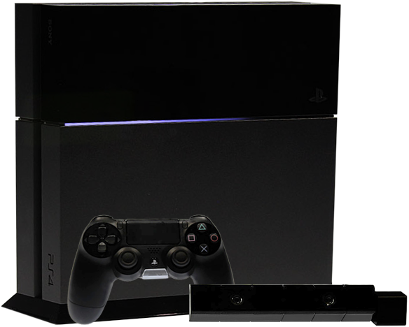 The main console unit of the PlayStation 4, on display at E3 2013